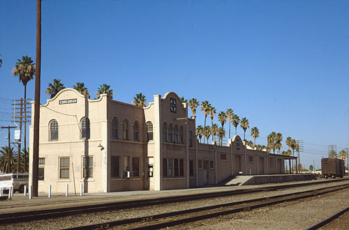 The former Corcoran station in November 1979